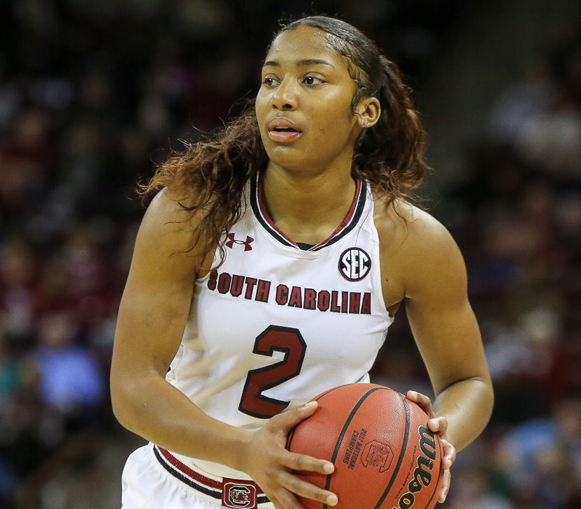 Photo by Chris Gillespie